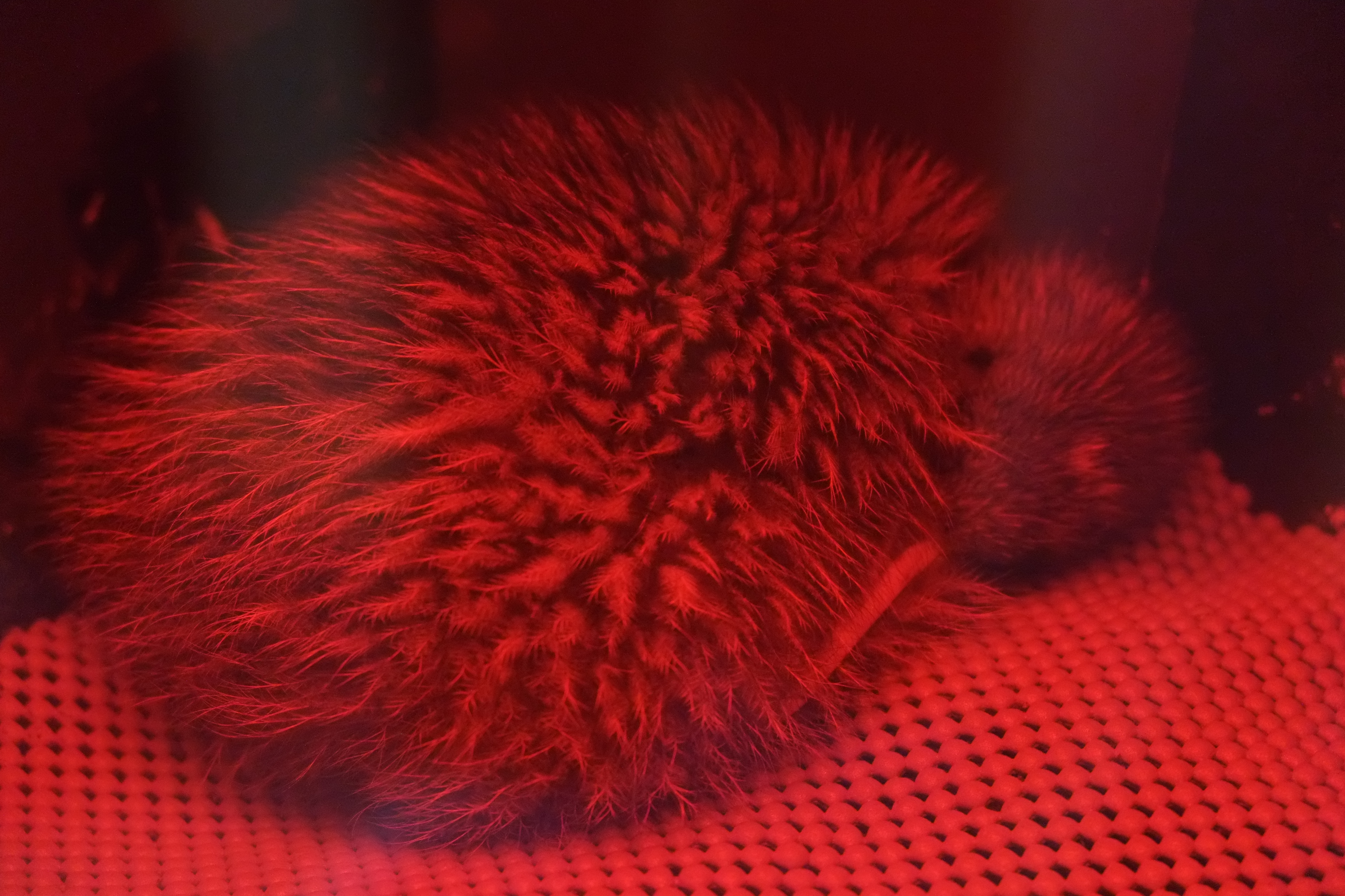 Rowi chick (Okarito Kiwi) in rearing facility at West Coast Wildlife Centre in Franz Josef, New Zealand. The rearing enclosure is lit by a red light.